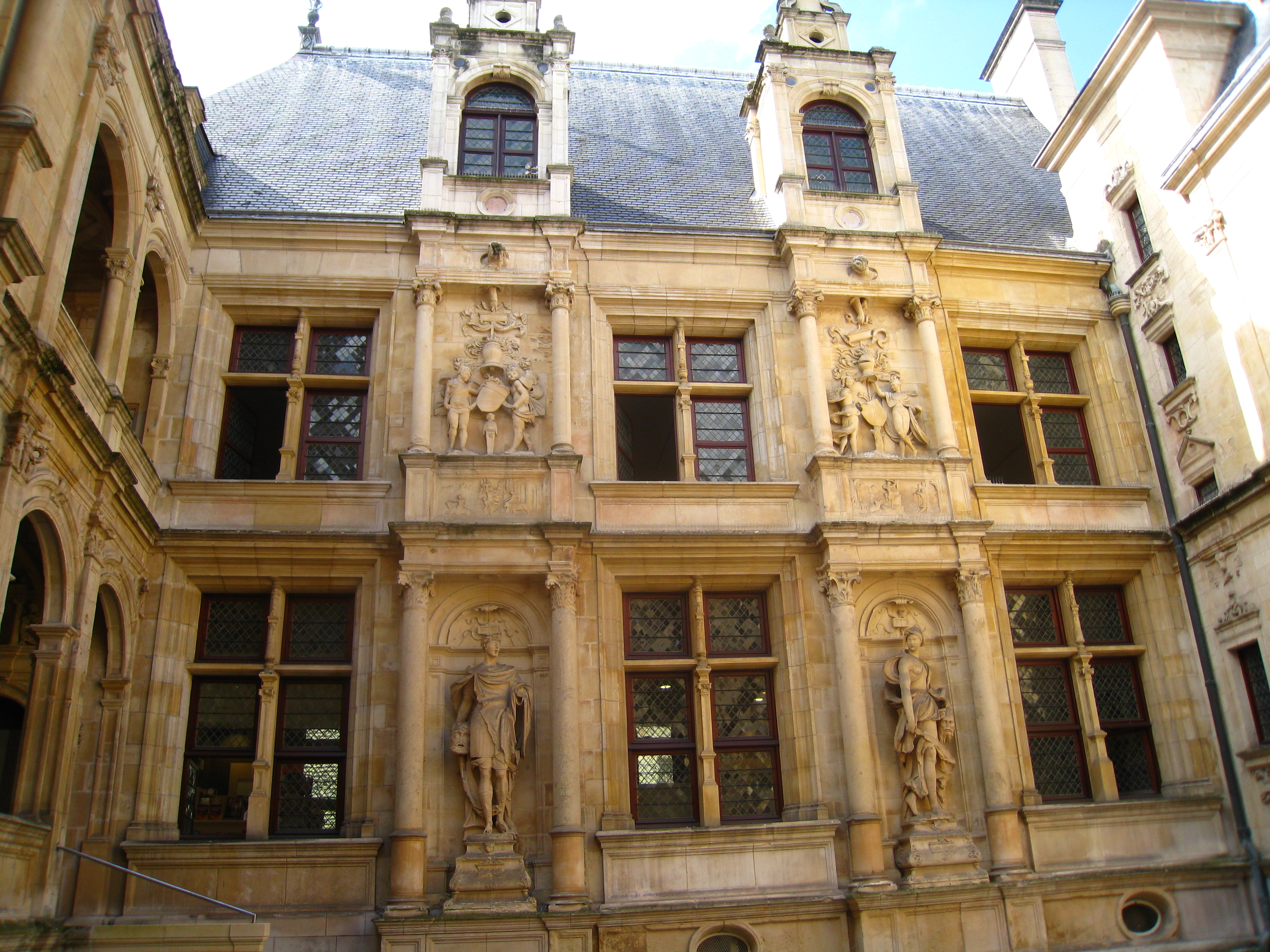 Escoville's courtyard, in the town center : tourist information point.